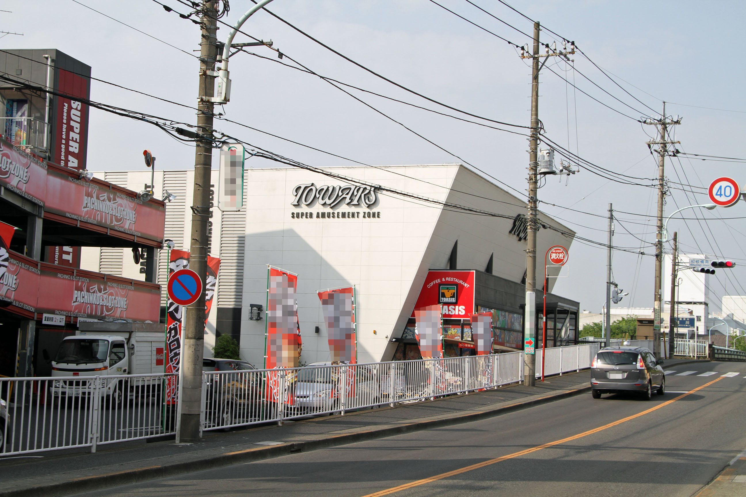 Pachinko parlor "TOWARS" in Hachioji, Tokyo, Japan. Managed by OZAM co.,ltd.